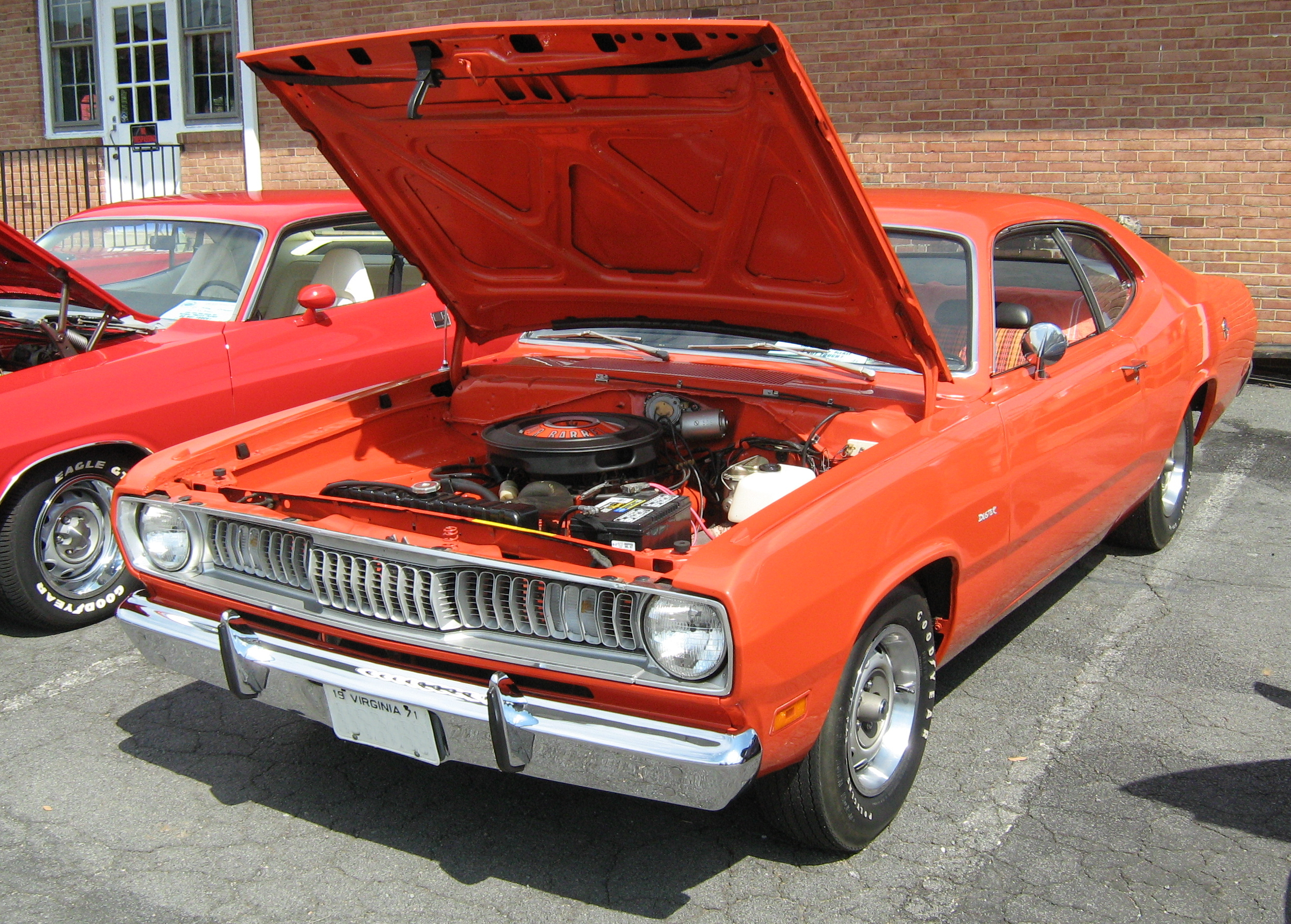 1971 Plymouth Duster two-door sedan. Front view.